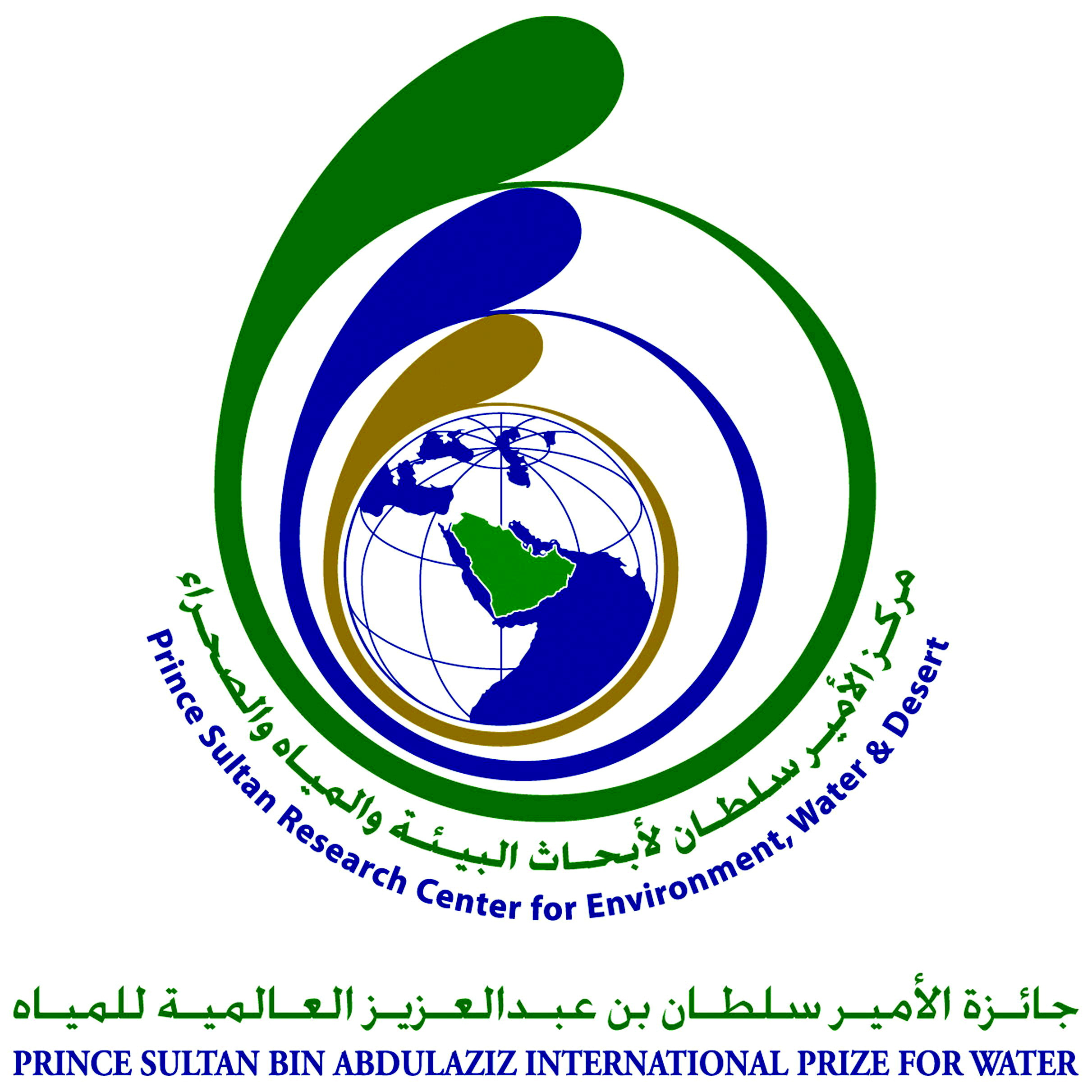 This is the logo of the Prince Sultan Bin Abdulaziz International Prize for Water.